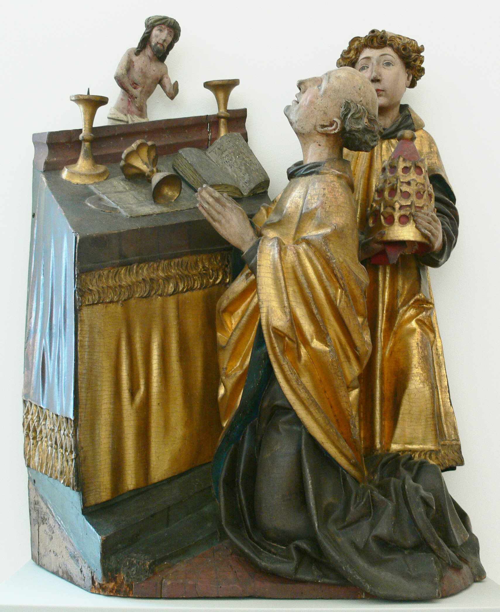 The Mass of St. Gregory, possibly from the same high altar altarpiec of the Church of our Lady in Ravensburg that the Ravensburg Schutzmantelmadonna is from; limewood, original colours. Skulpturensammlung (, acquired in 1882). A cleric holds the papal tiara while Pope gregory kneels.